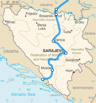 Bosnian Roadway A1